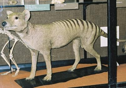 Thylacine, Rothschild Zoological Museum, Tring, England